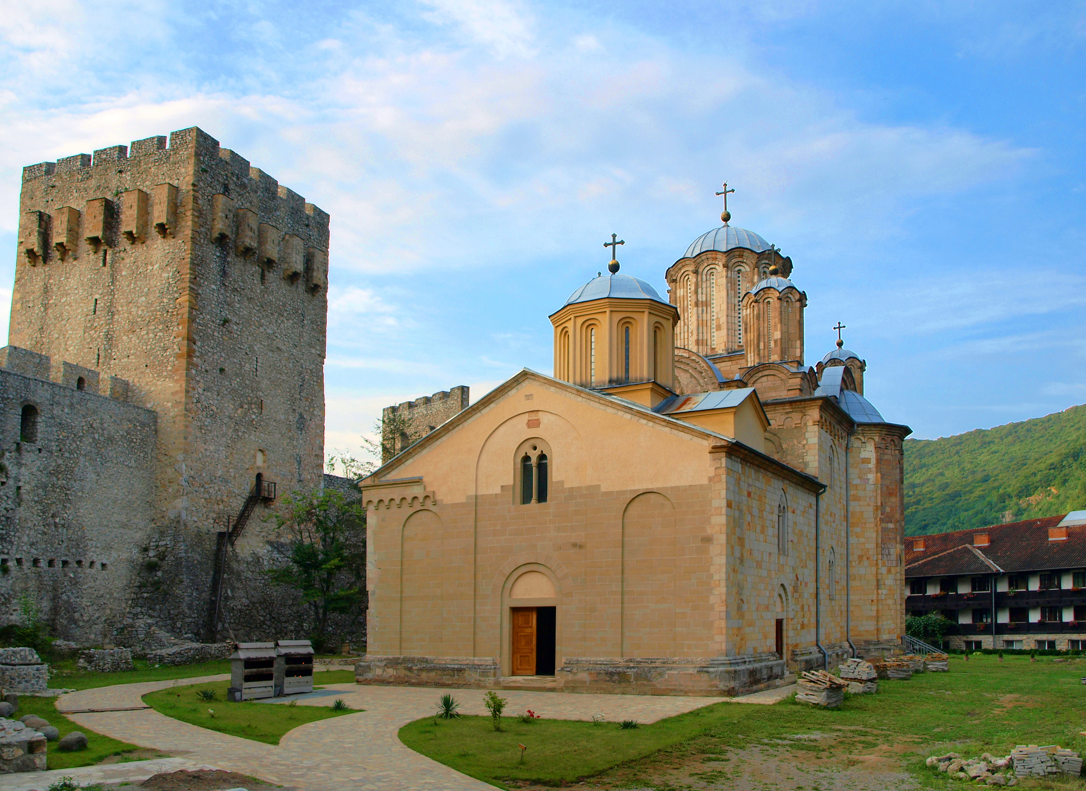 Monastery of Manasija, near Despotovac, Serbia